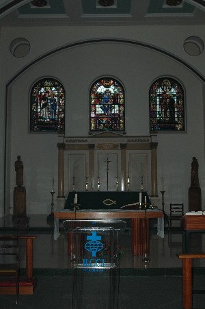 creative commons licence (Raj)